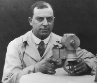 Harry Miller portrait